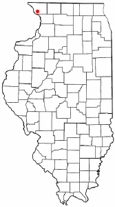 Category:Illinois city locator maps